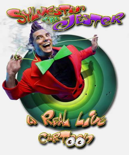 Sylvester the Jester - "A Real Live Cartoon"